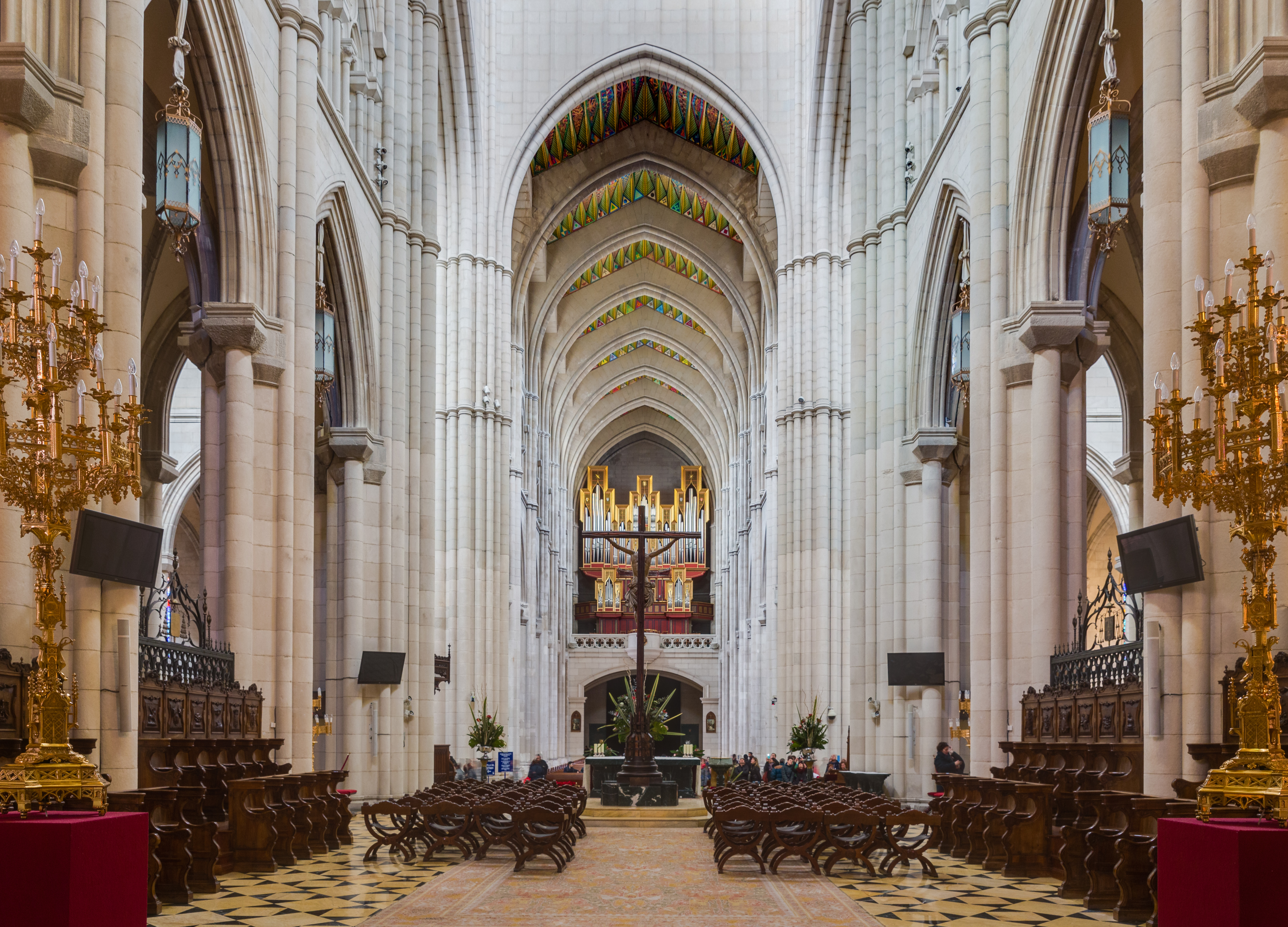 Almudena Cathedral, Madrid, Spain